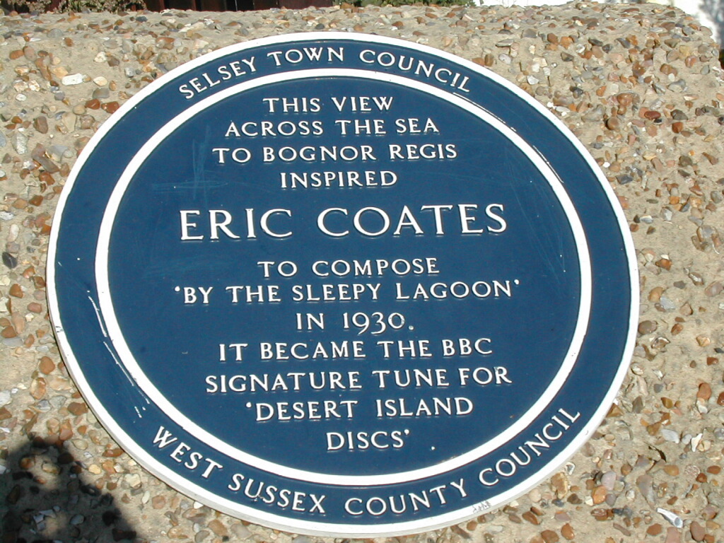 Plaque to Eric Coates, Selsey, W. Sussex, England, 24 Sep 2003 Pic taken by Jonathan Barnes (user:Puffball) and uploaded by him